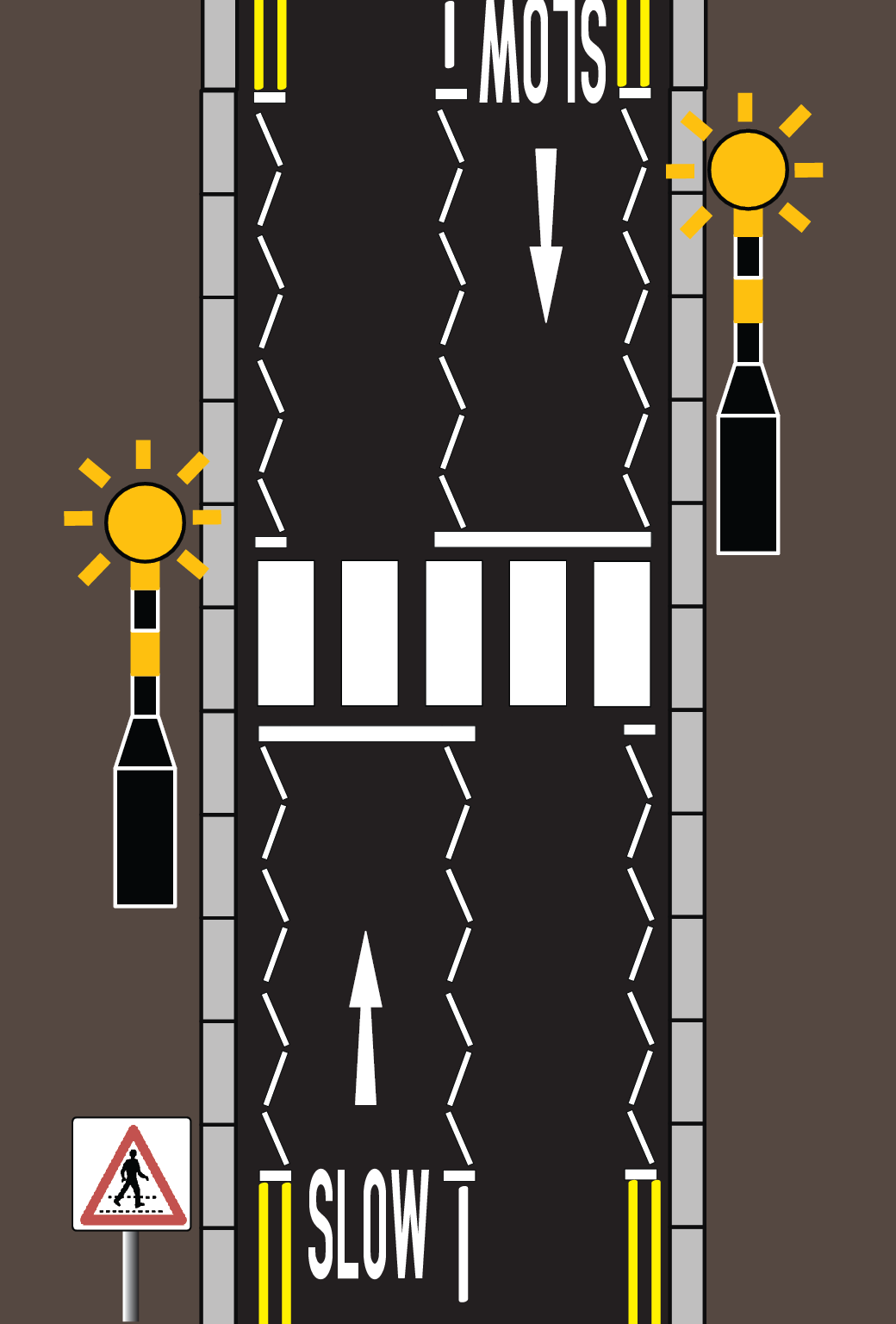 Diagram of a zebra crossing layout in Singapore.